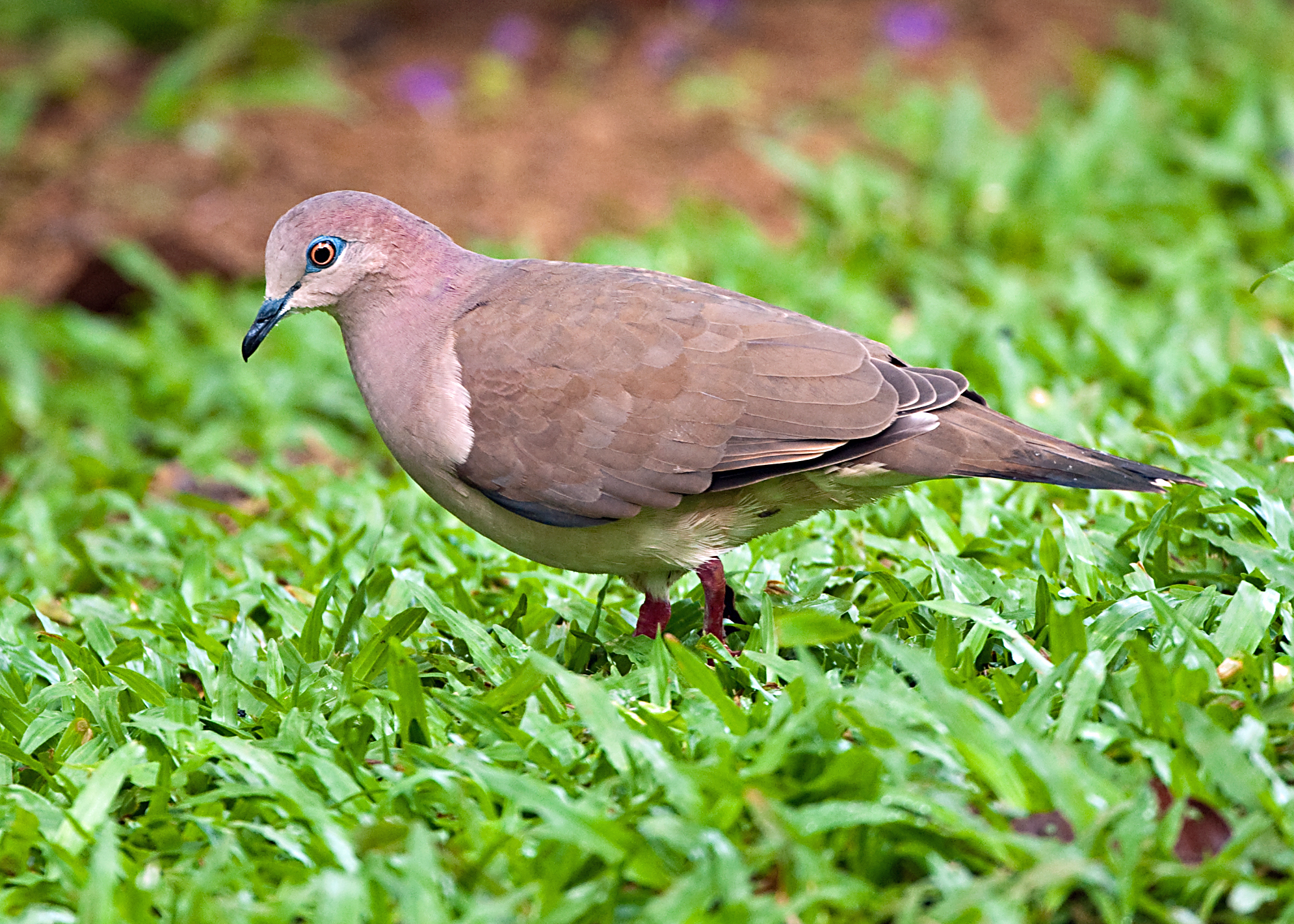 A White-tipped Dove near Rancho Naturalista, Cordillera de Talamanca, Costa Rica.